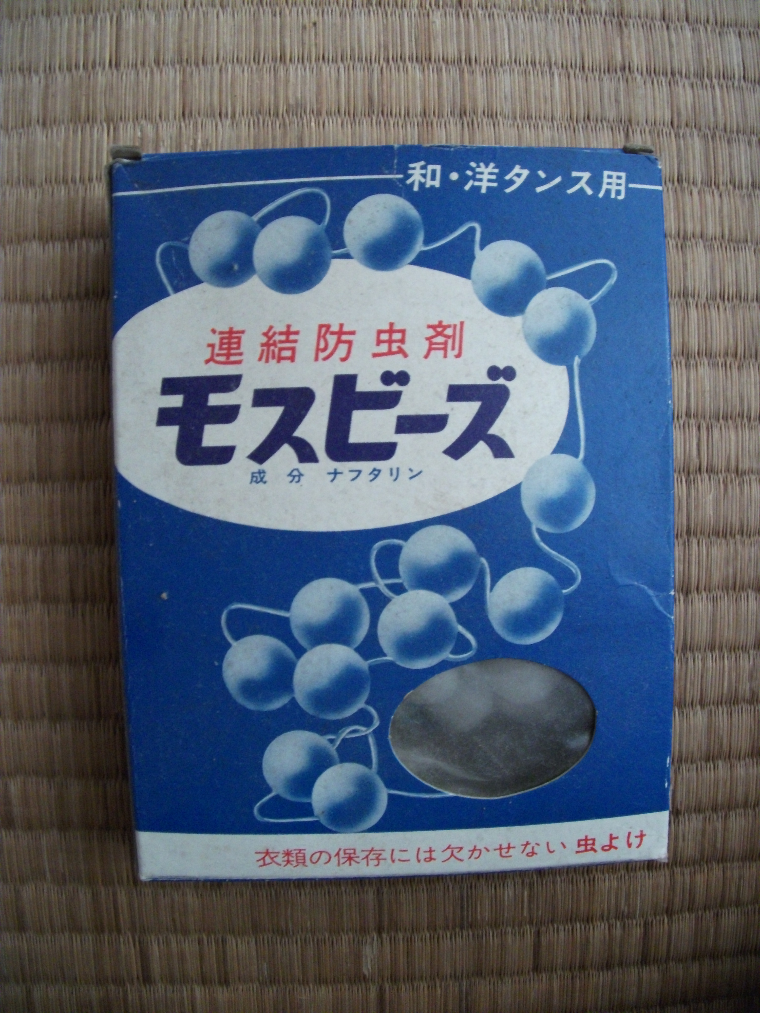 Japanese mothball "Moth beads" package, naphthalene